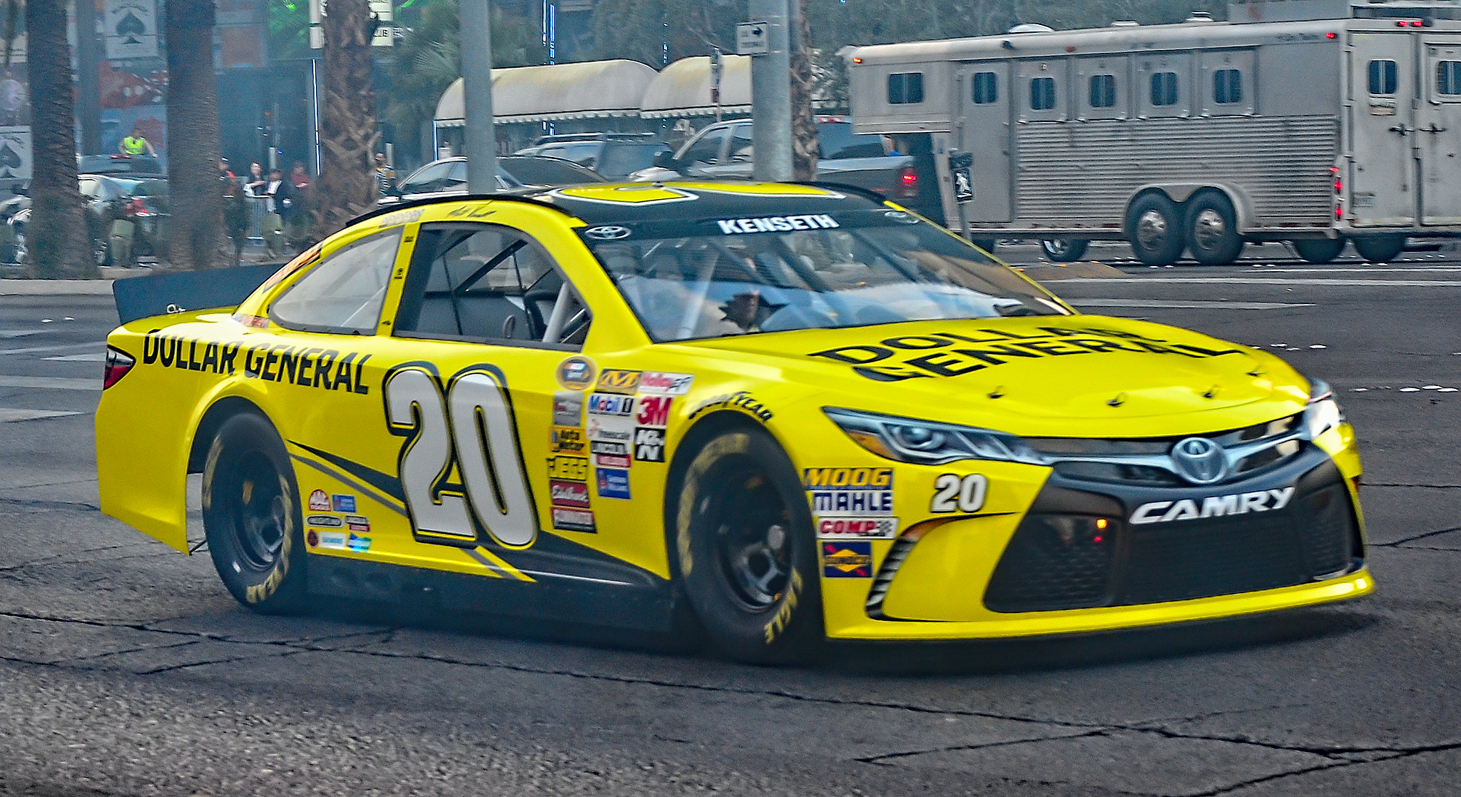 Matthew Roy "Matt" Kenseth is an American professional stock car racing driver. He currently drives the No. 20 Toyota Camry. Nascar Victory Lap 2015 The Strip, Las Vegas TDelCoro December 3, 2015